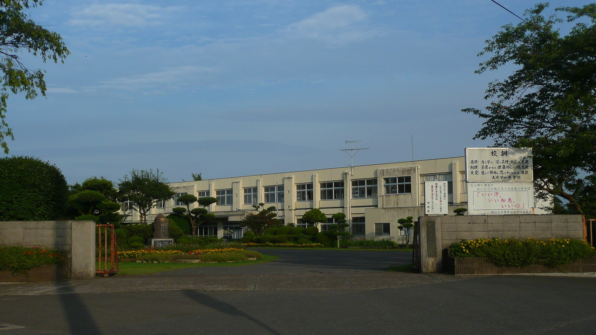 Osaki-Daiichi Junior High School (Osaki Town, Kagoshima, Japan)